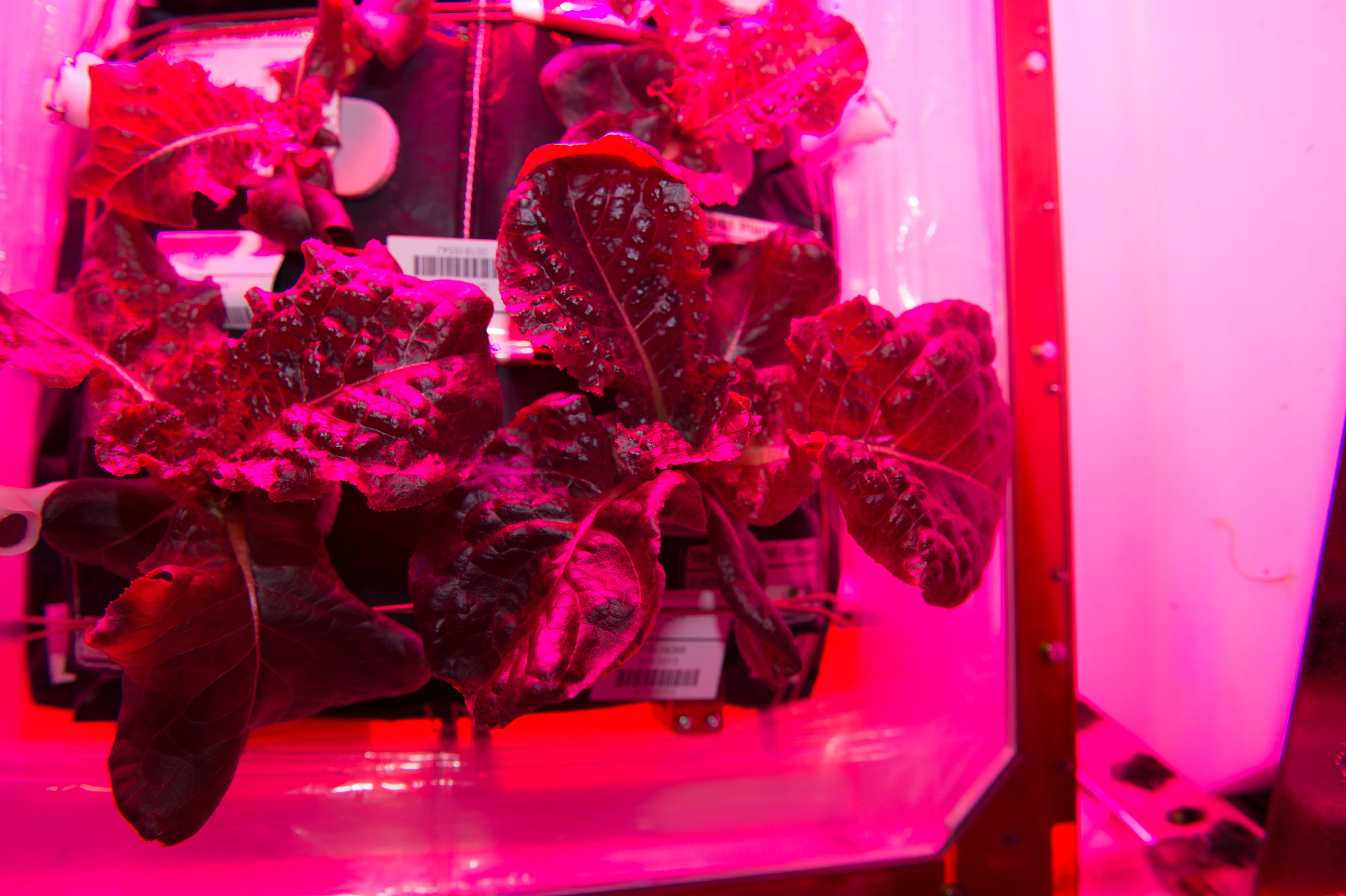 Astronauts on the International Space Station are ready to sample their harvest of a crop of "Outredgeous" red romaine lettuce from the Veggie plant growth system that tests hardware for growing vegetables and other plants in space.